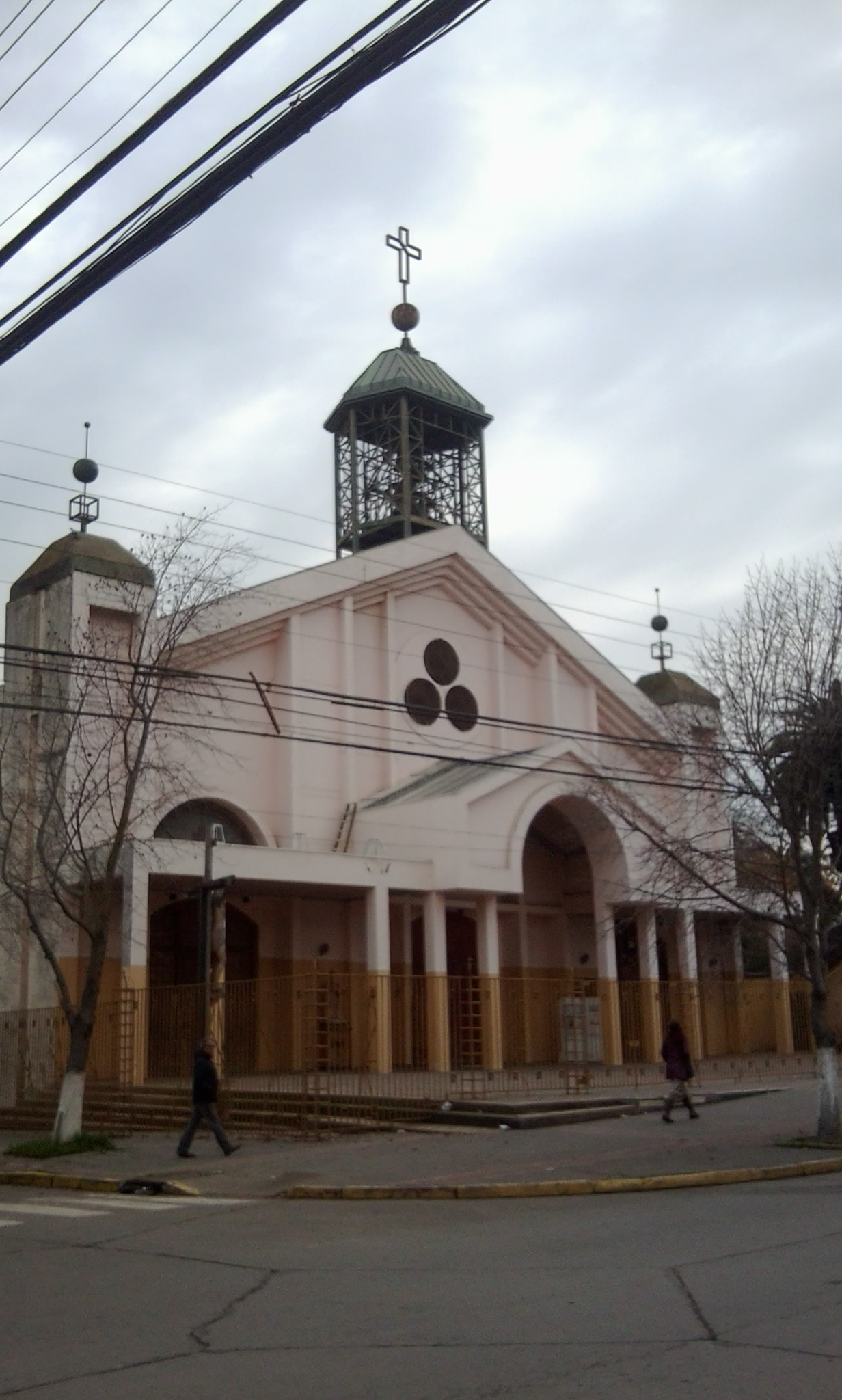 Saint Anne Minor Basilica, in Rengo (Chile)